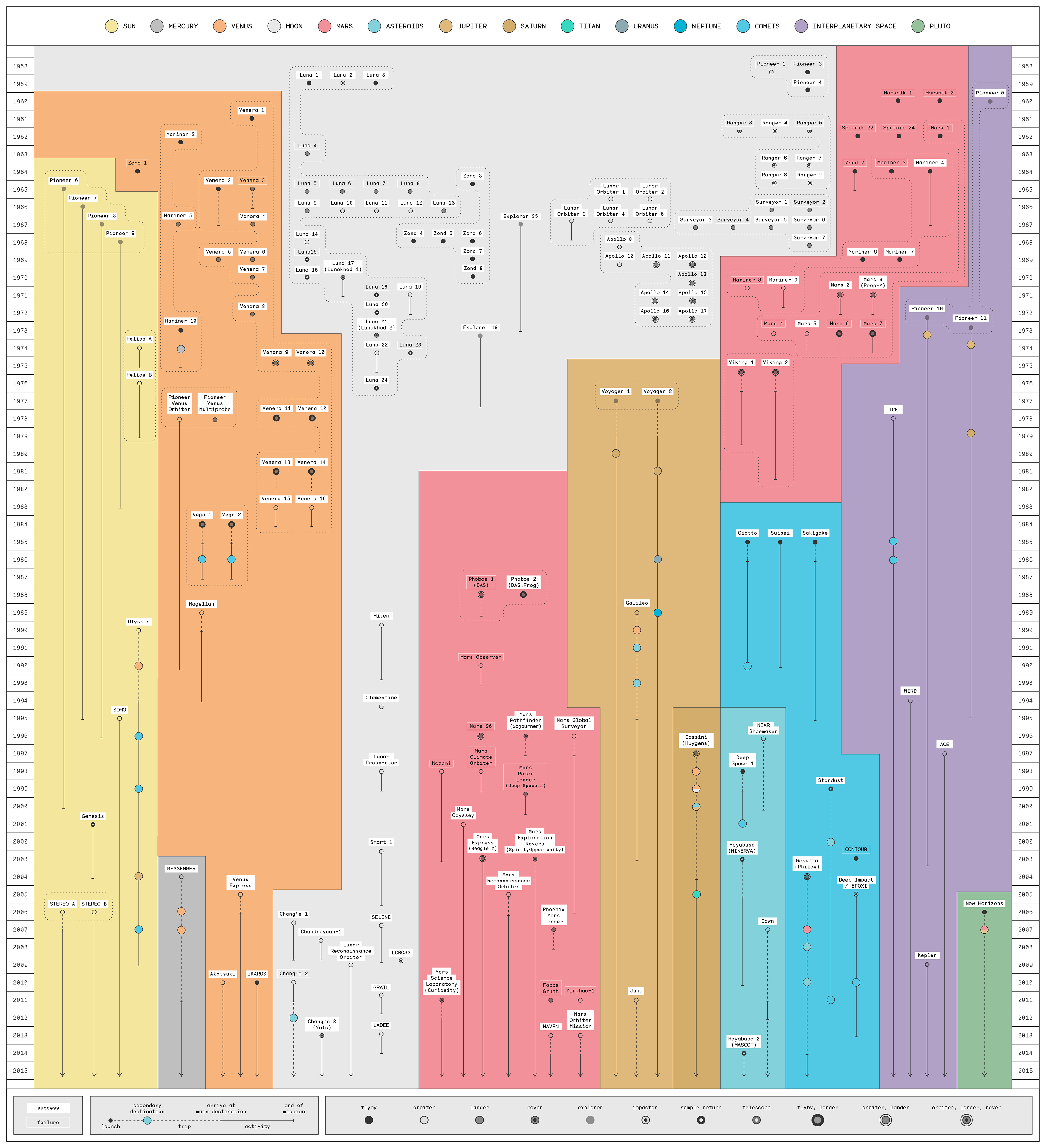 This chart includes every probe that left geocentric orbit (up to 2014), and does not include missions which failed at launch.